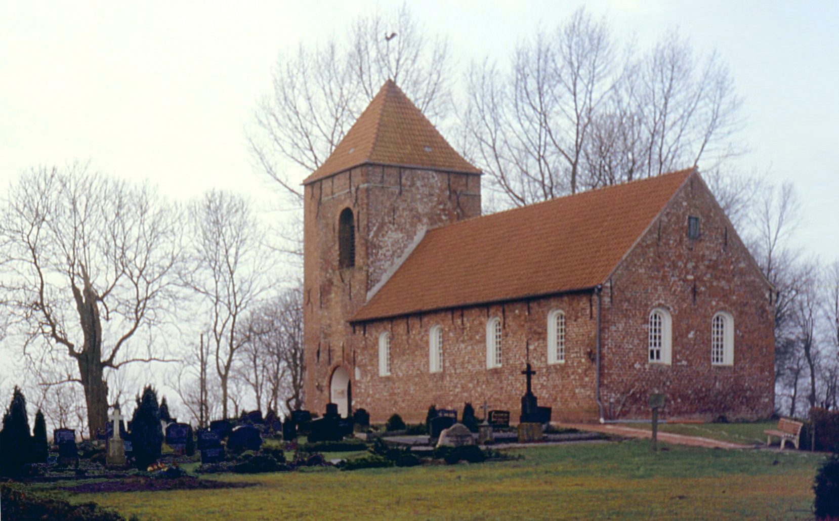 Church and cemetery (churchyard) of the small village Bedekaspel in East Frisia. The church was consecrated in the year 1728; earlier, there was another building at the same place.